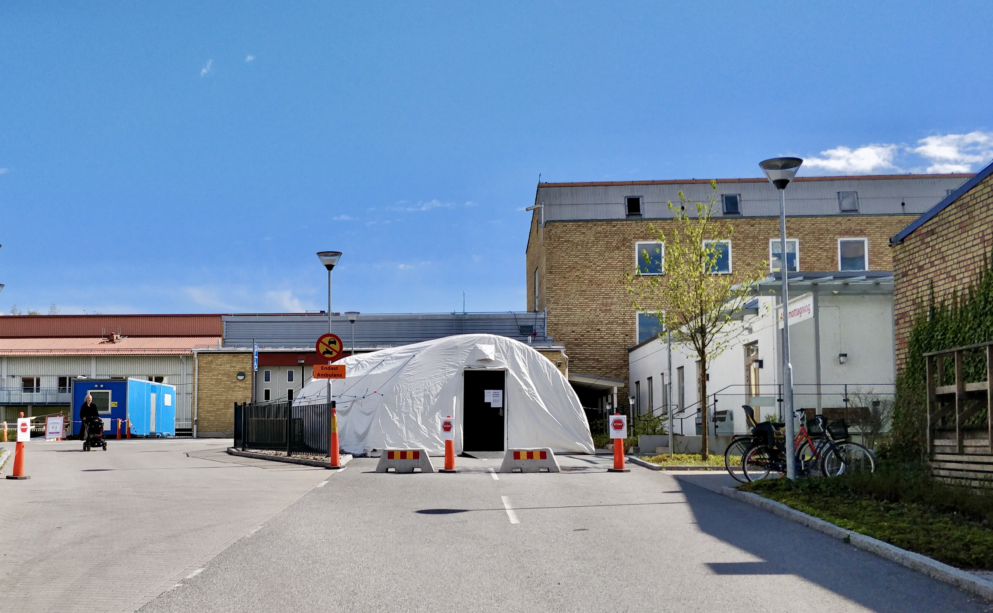 Triage tents outside of Enköping Hospital emergency entrance during the Corona Pandemic